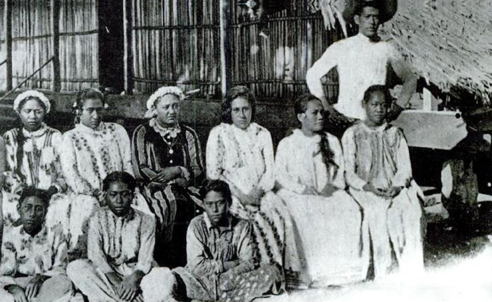 The Queen and maids of honor. A Polynesian court 100 years ago. The Queen mentioned is Queen Teriimaevarua III.